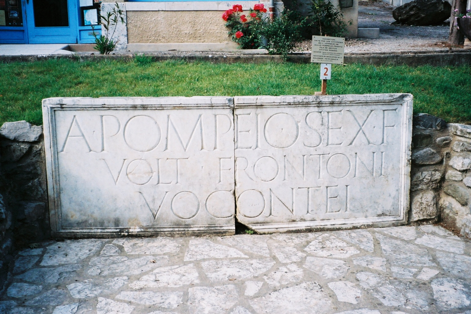 Ancient roman inscription in Saillans (Drôme)